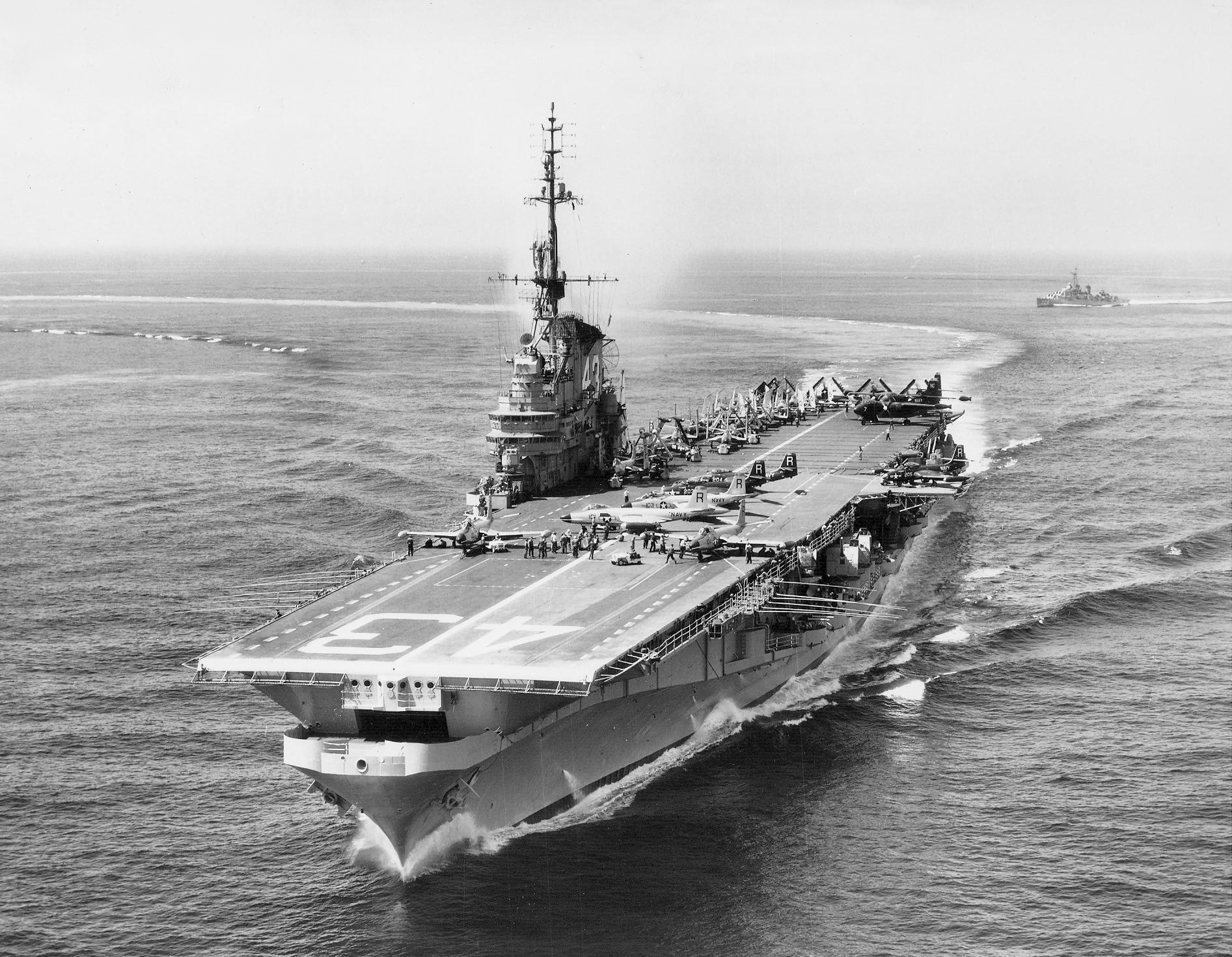 The U.S. Navy aircraft carrier USS Coral Sea (CVA-43) at sea in 1955 during a deployment to the Mediterranean Sea between March and September 1955. Visible are the aircraft of Carrier Air Group 17 (CVG-17): McDonnell F2H-2 Banshee fighters of fighter squadron VF-172 Blue Bolts (painted dark blue), F2H-3 Banshees of VF-171 Aces on the catapults (painted light grey/white), and two North American AJ-1 Savage bombers parked on the port aft flight deck. On the ramp some four Douglas AD Skyraiders are parked. CVG-17's tailcode "R" is clearly visible. The destroyer in the background appears to be USS Borie (DD-704).